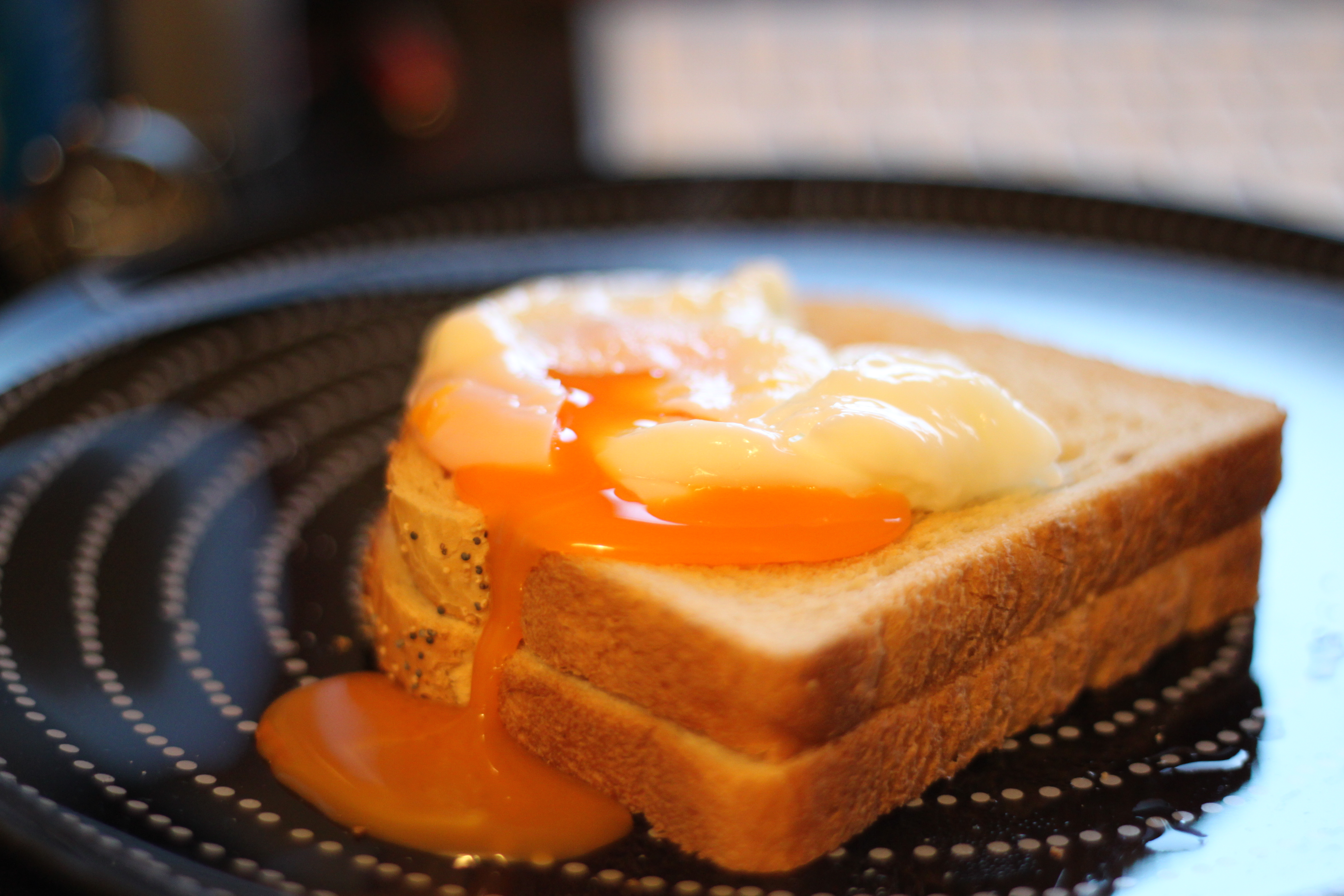 A single broken poached egg on 2 pieces of toast bread.